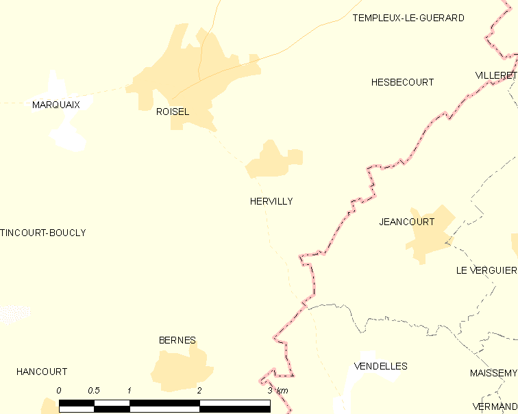 Map of French municipality Hervilly